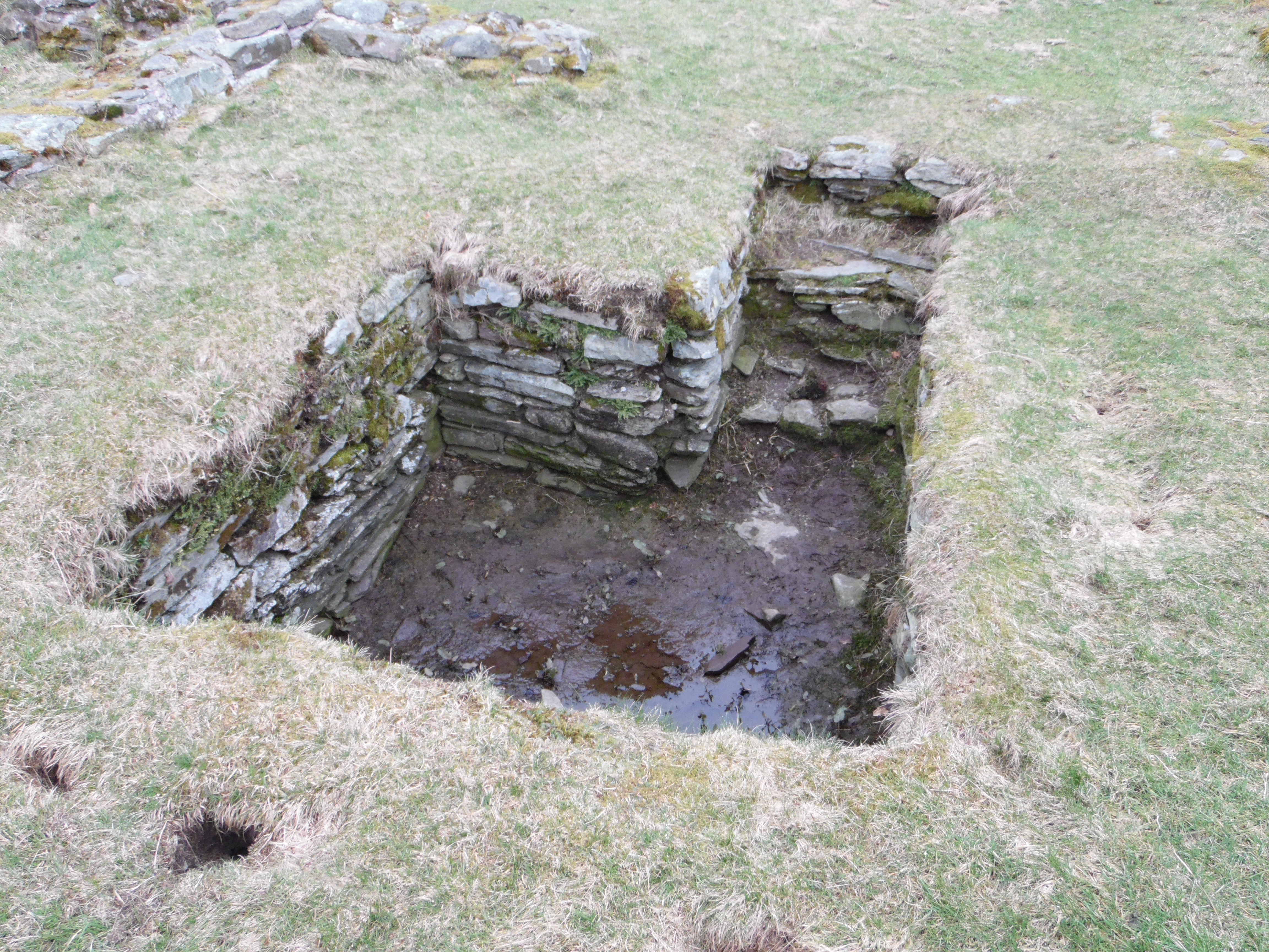 Remains of the Galava Roman fort, just outside Ambleside. Cumbria, England.